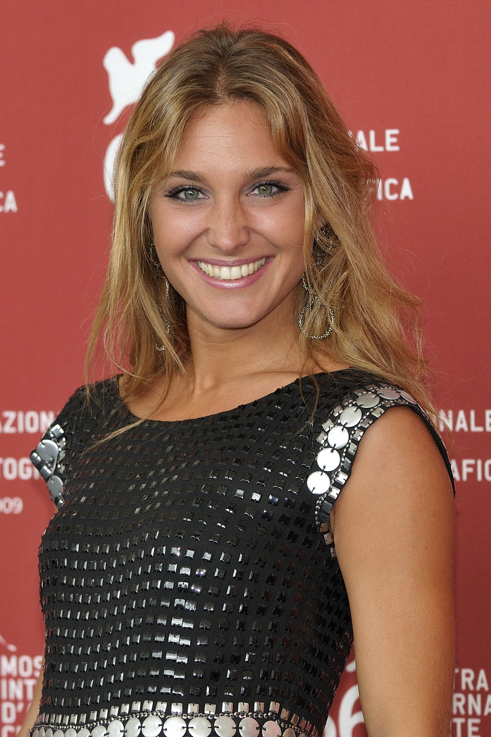 Lucilla Agosti at 2009 Venice Film Festival